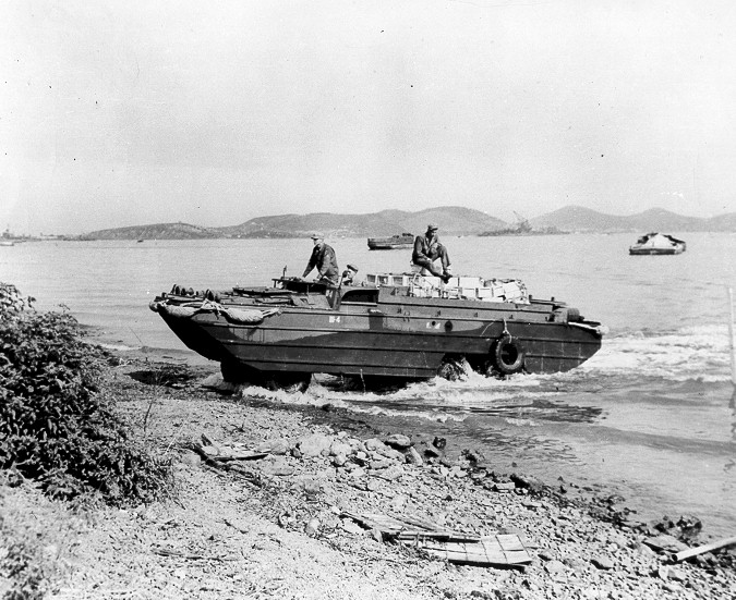 DUKW amphibious truck.